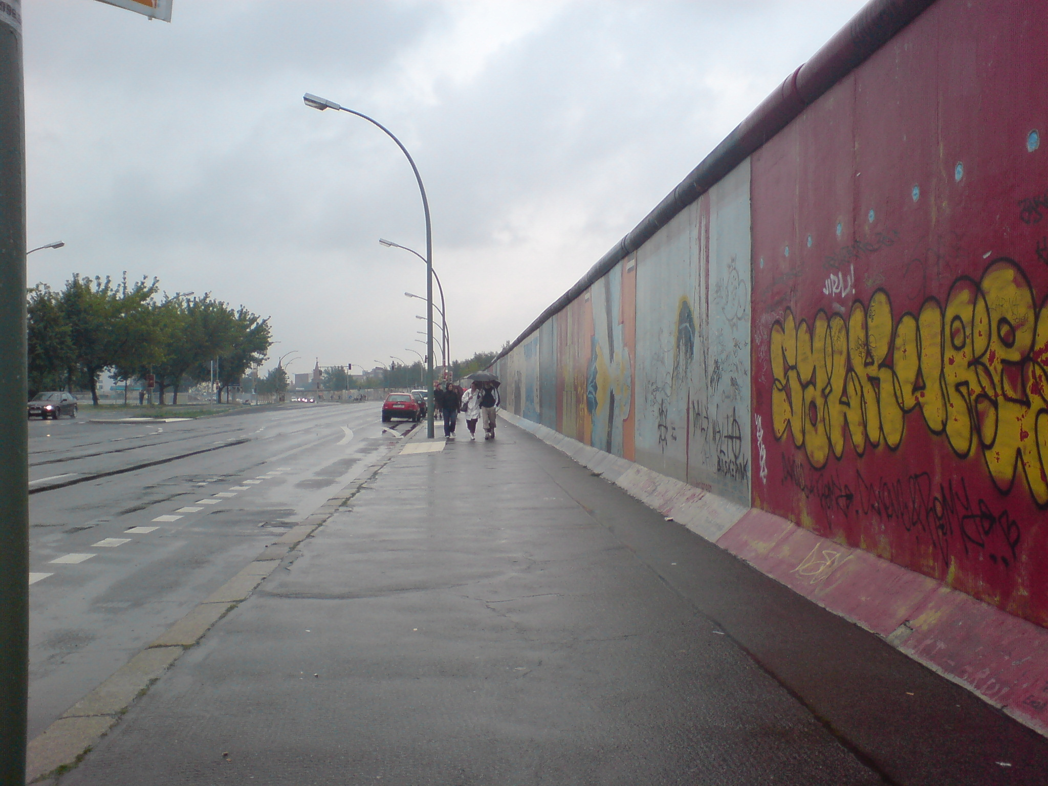 This image is of the Berlin wall being taken on 13/8/06.